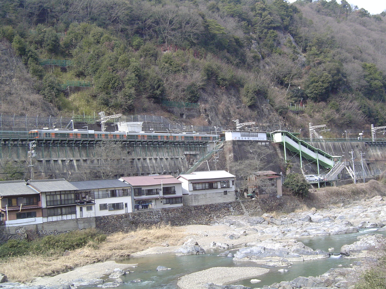 JR Central Chuo Main Line Jokoji Station